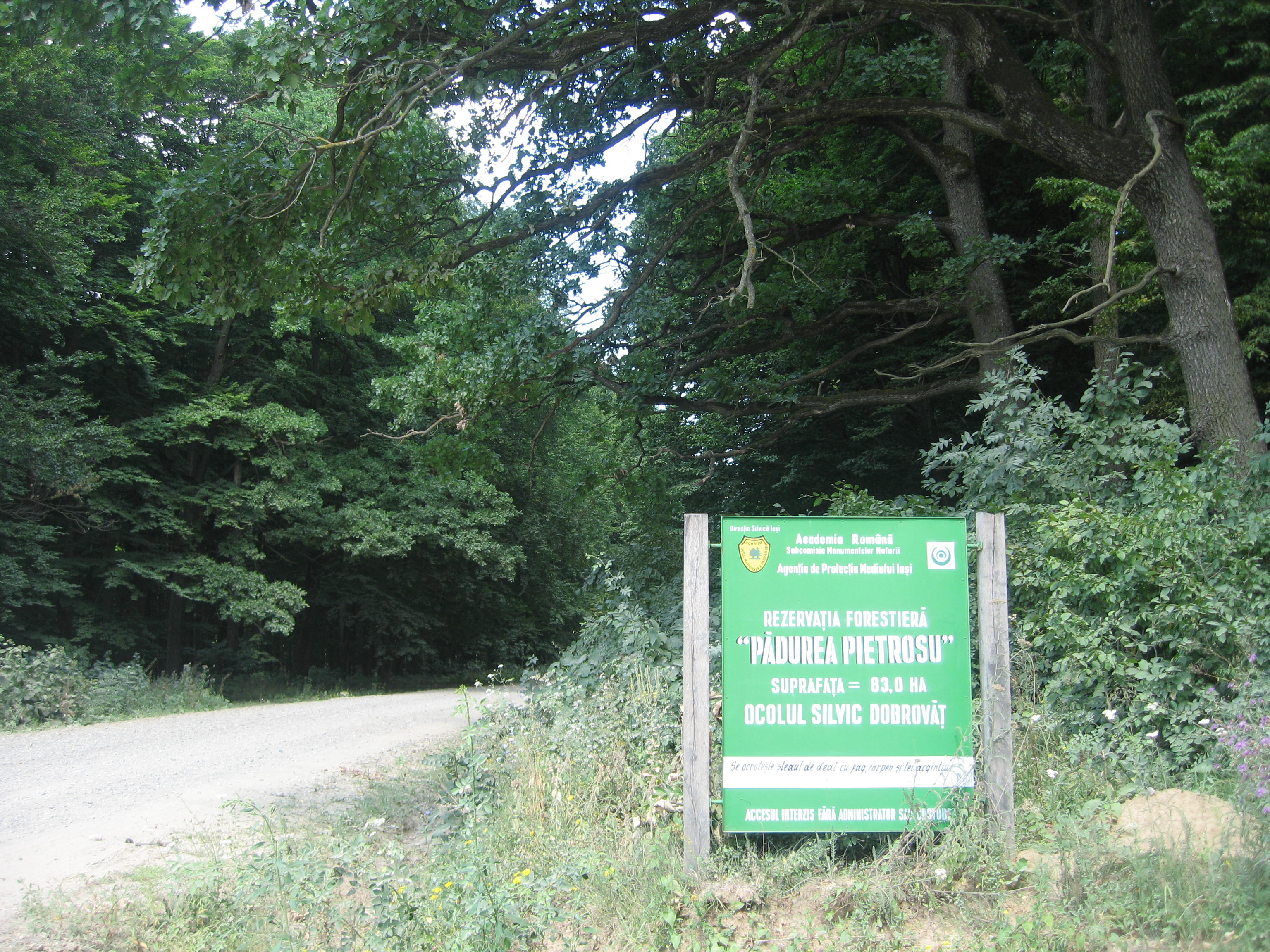 Rezervaţia Pădurea Pietrosu